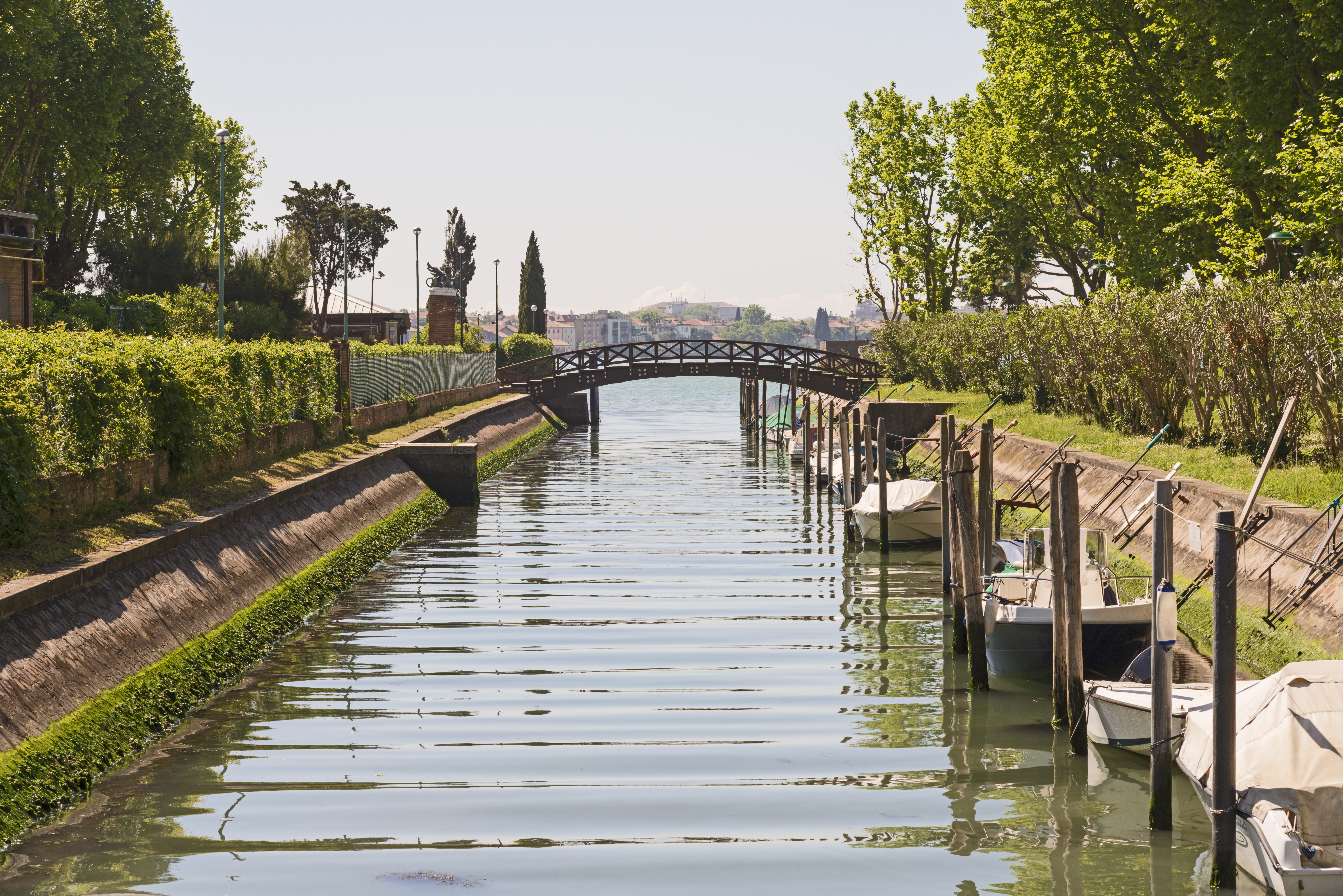 Rio di Sant'Elena Venice. View of the rio and the ponte della Scuola Navalei ; from the ponte di Sant'elena.